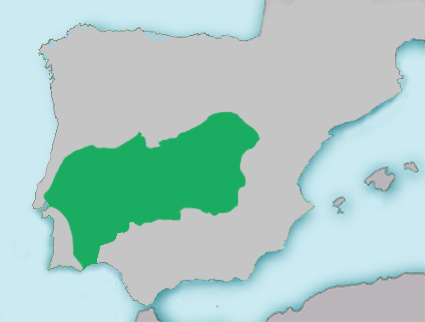 Distribution map of Luciobarbus comizo in Iberian Peninsula.